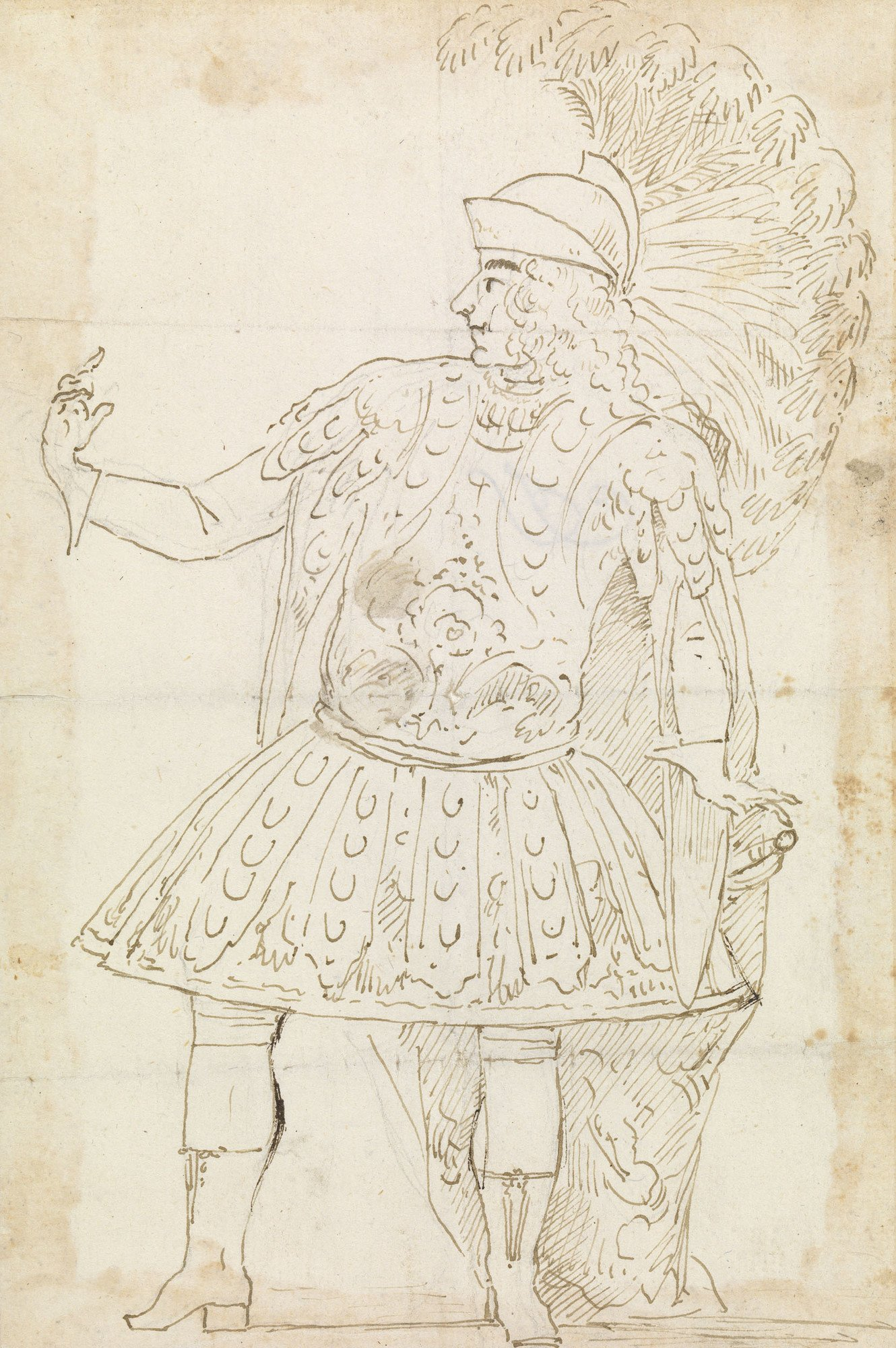 Drawing (caricature) of Diana Vico (fl. 1707-1732)